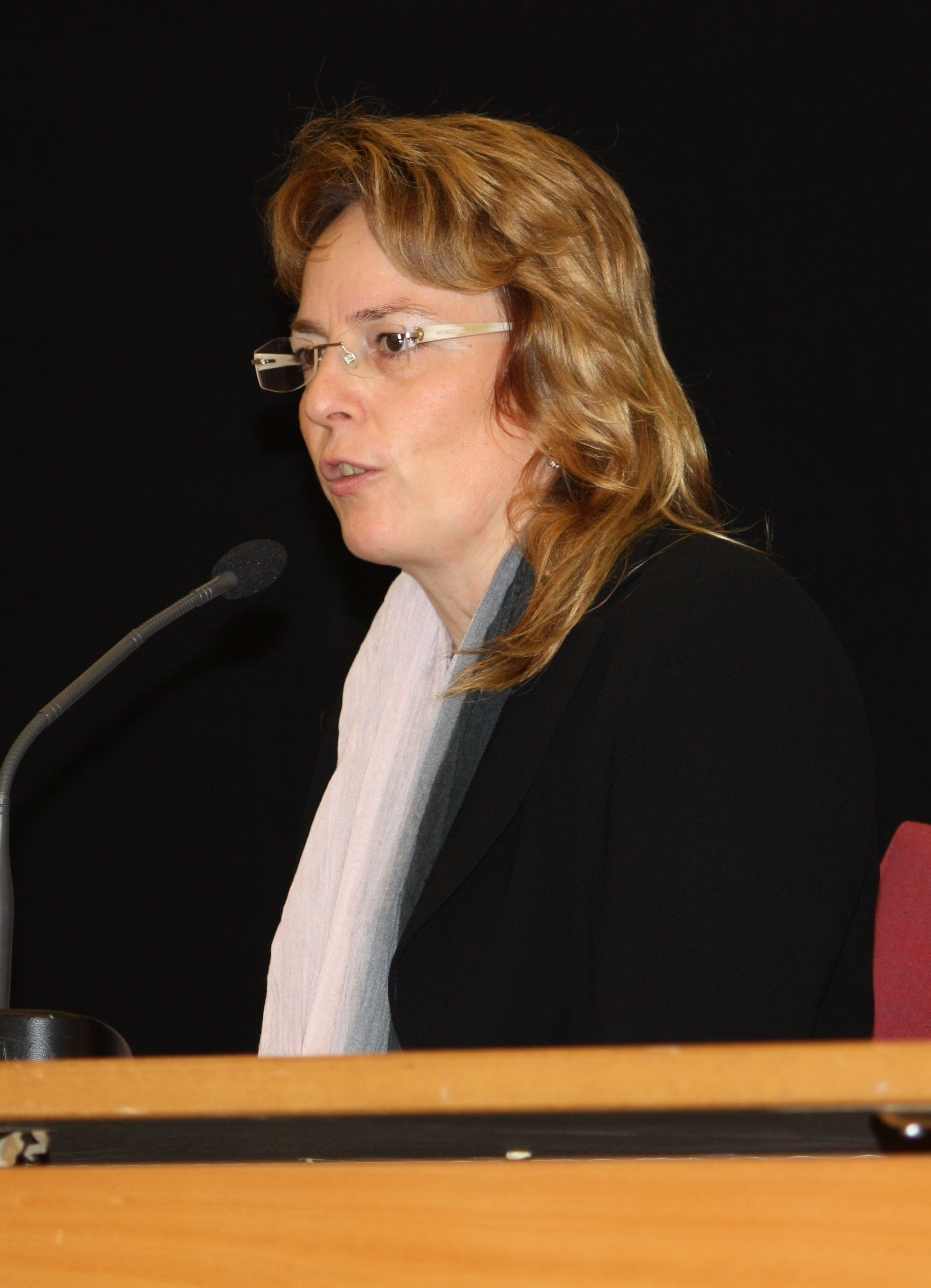 Finnish writer Paula Havaste at Turku Book Fair 2010